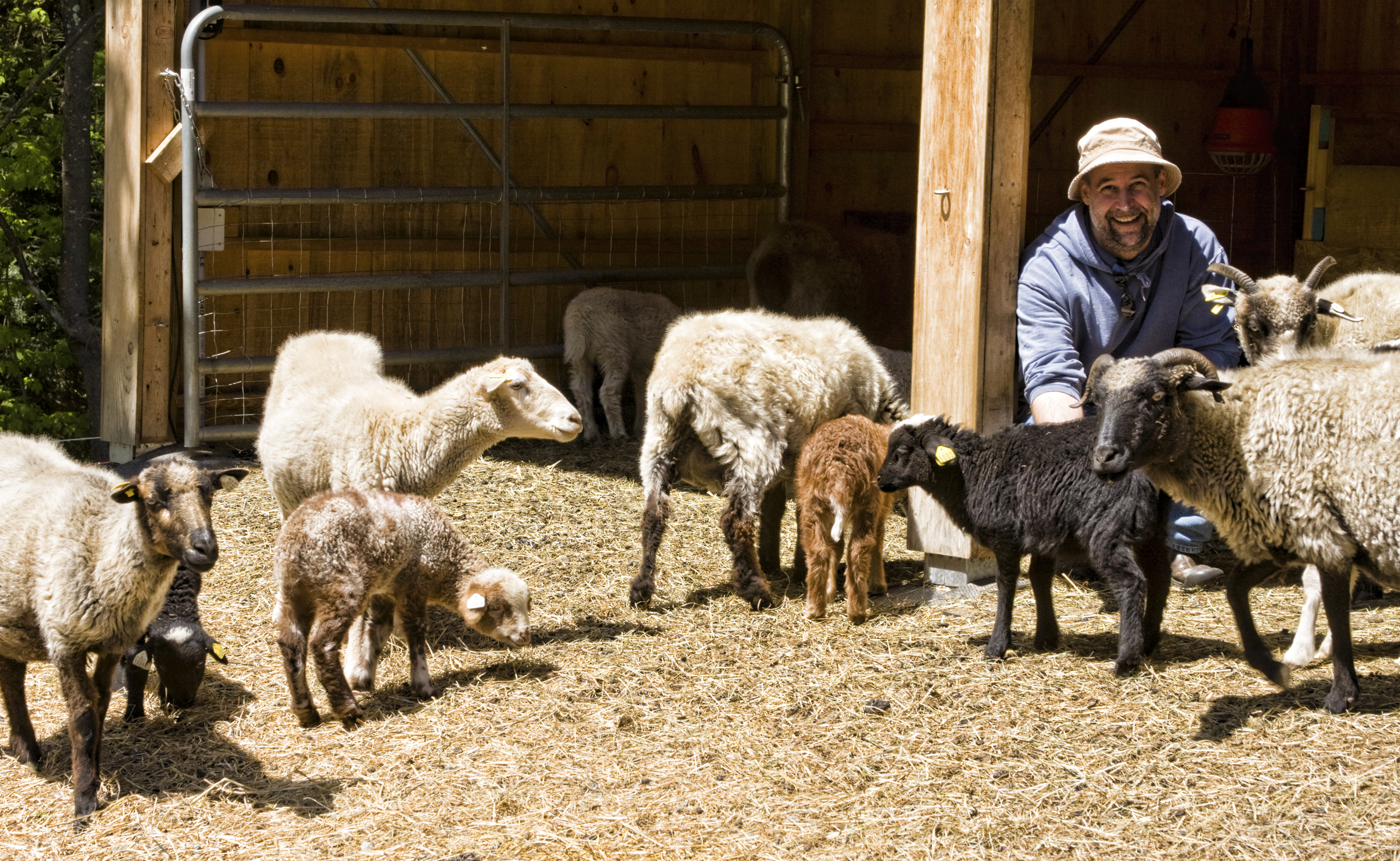 Rick Scully with his flock of Navajo-Churro sheep.